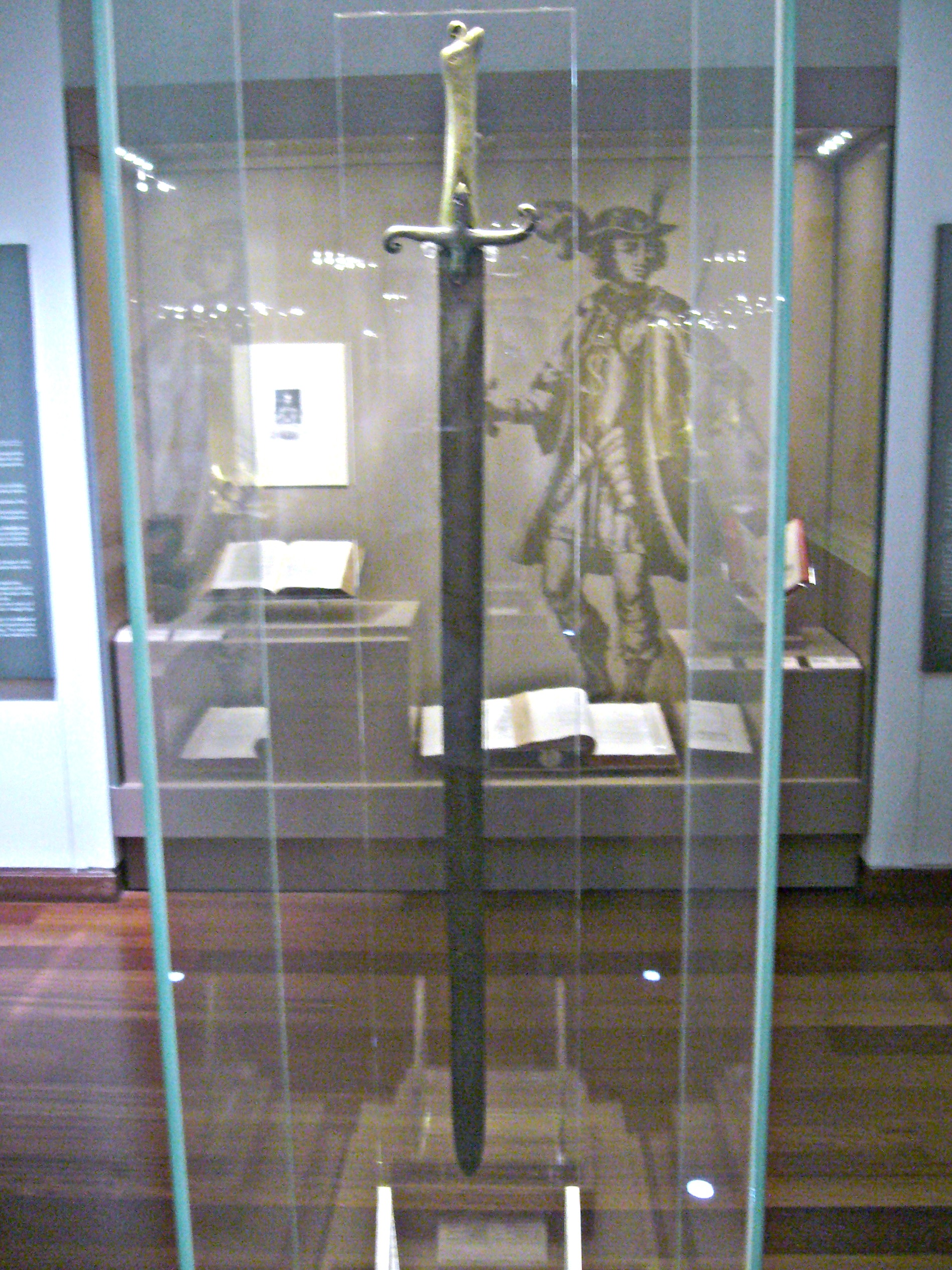 Medieval sword of crusader (circa 1200 A.D.) - Leventis Municipal Museum, Nicosia, Cyprus